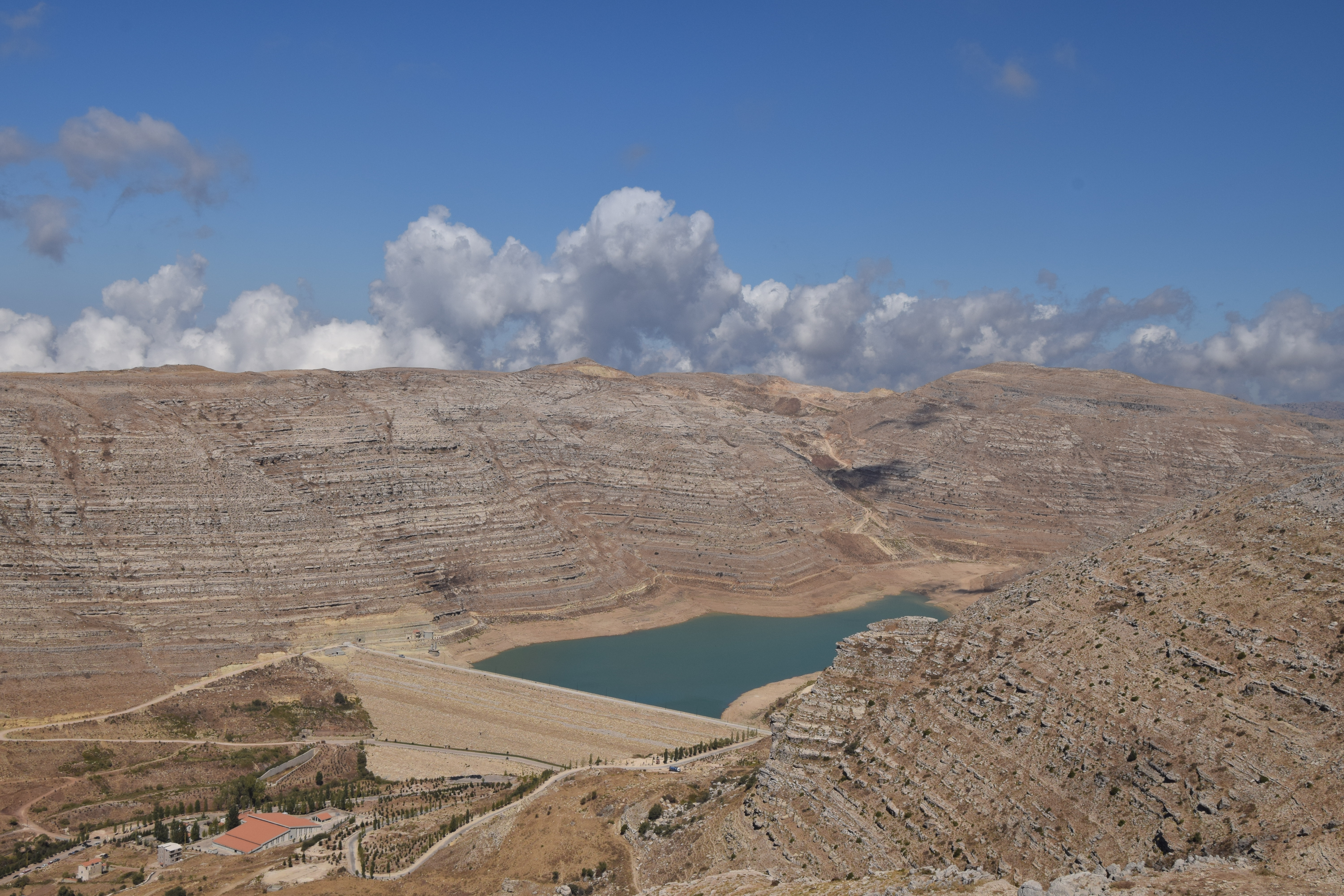 Photo showing Chabrouh Dam in Faraya, Lebanon in context, and thus also showing the geological lines on the moutains. (1 Oct 2017)